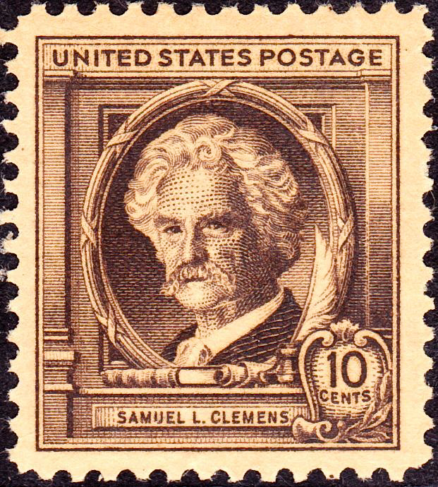 Samuel Clemens (Mark Twain) US Postage stamp — issue of 1940,10c, brown. One of the Famous American commemorative issues of 1940.